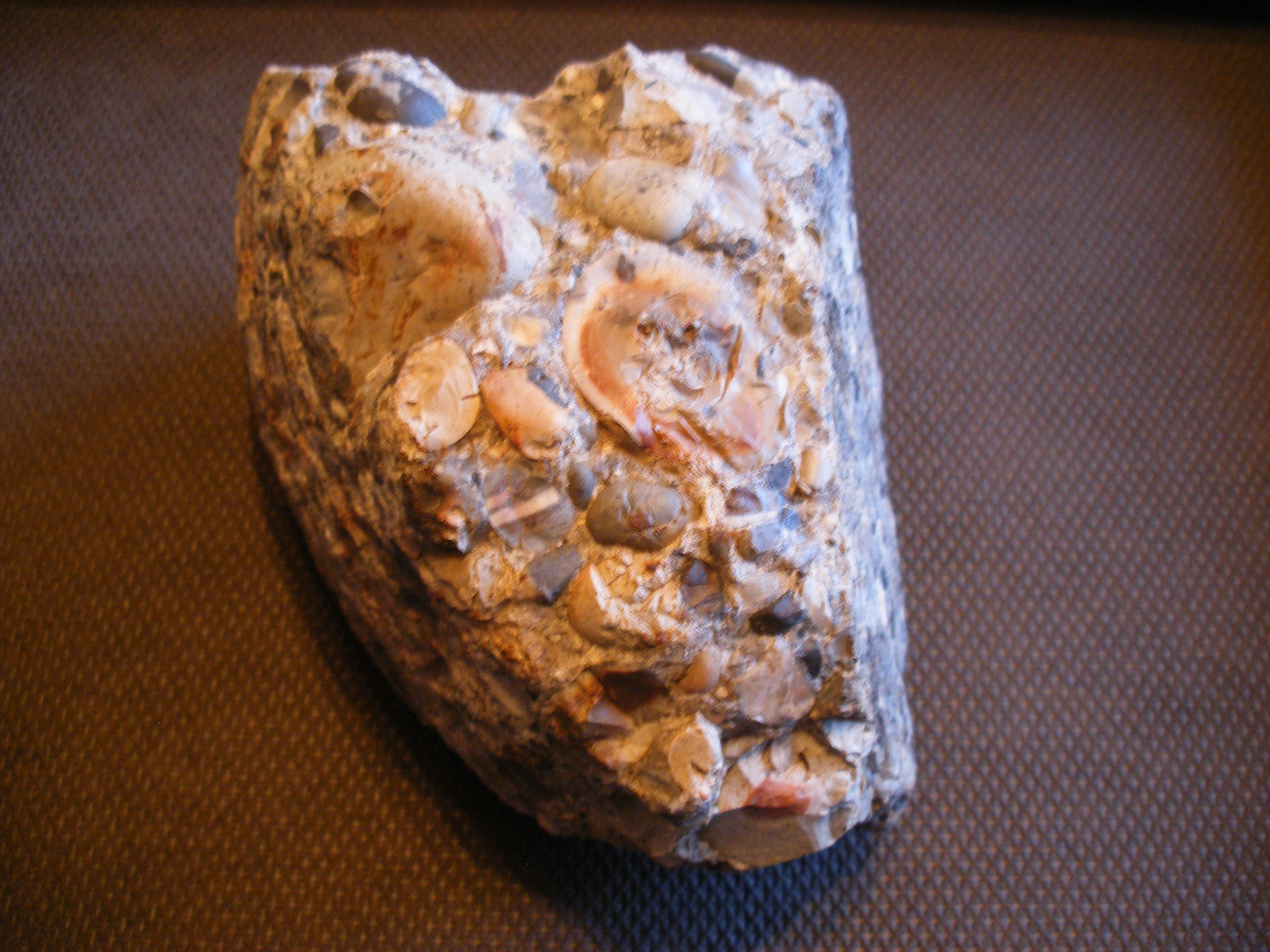 A fragment from a Hertfordshire puddingstone quern of probable Roman date. It is dome-shaped with a flat grinding surface. Part of the dome-shaped top surface and flat grinding surface survives. It contains many oval shaped grey and white pebbles of varying sizes.